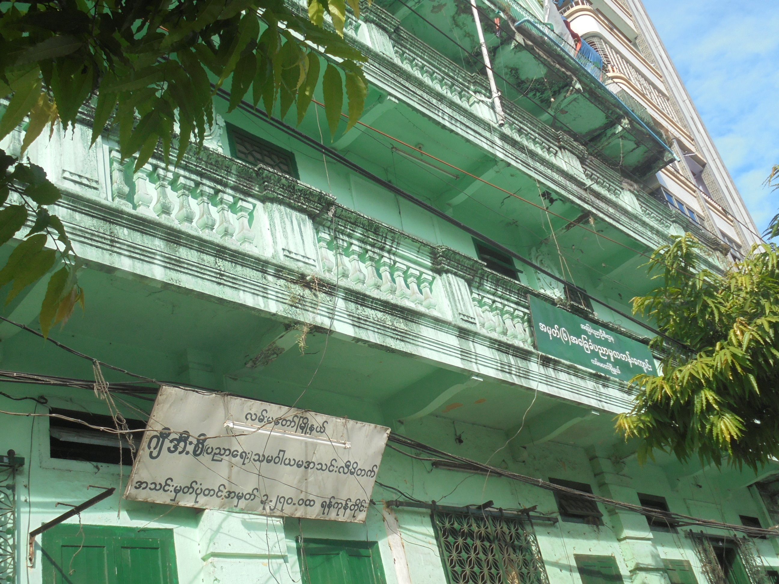 Basic Education Primary School No. 6 Lanmadaw